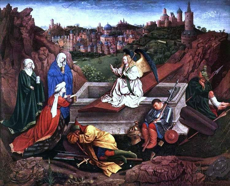 Fragment, possibly from an altarpiece to the Virgin Mary.